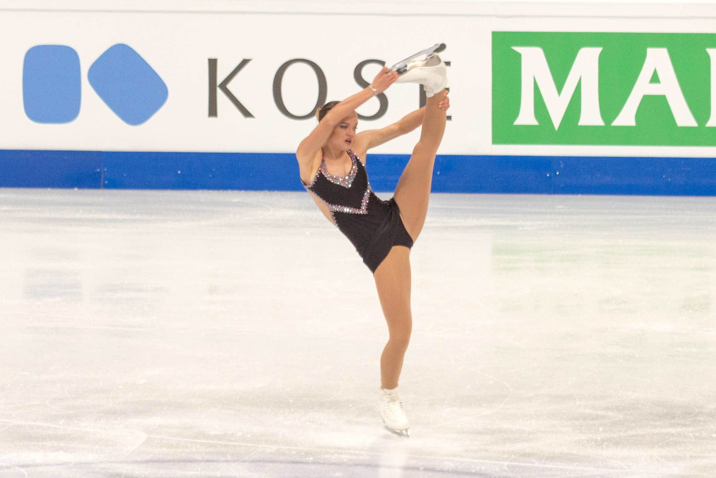 Loena Hendrickx (BEL) does a split during her free skate at the 2017 World Figure Skating Championships